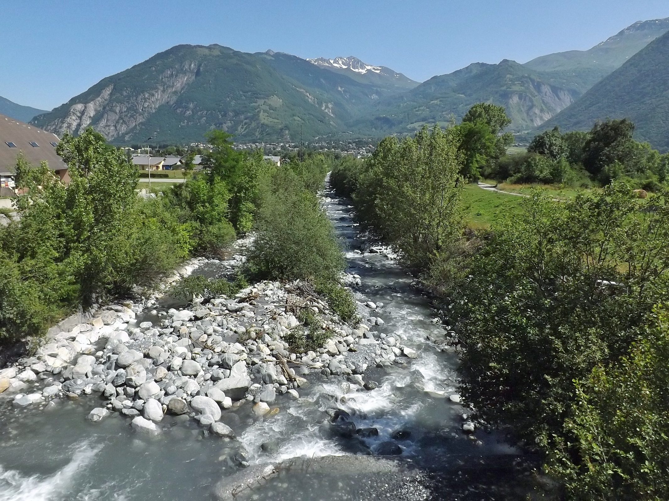 Sight of the river Glandon, at the limit of the the French communes Saint-Étienne-de-Cuines (left) and Sainte-Marie-de-Cuines (right) in Savoie, at the very end of its course until the river Arc.